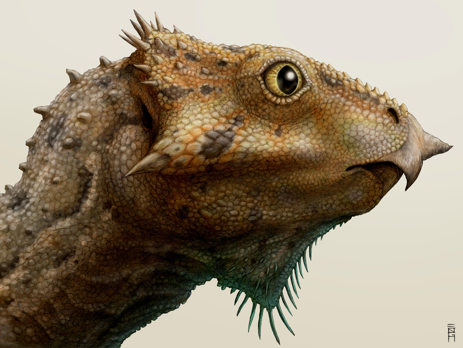 Life restoration of Aquilops americanus.